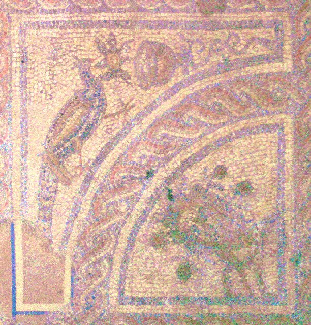 Mosaic, Brading Roman Villa. Detail of one of the excellent mosaics. This one has "Summer" with roses in her mouth and, of course, .... a peacock.